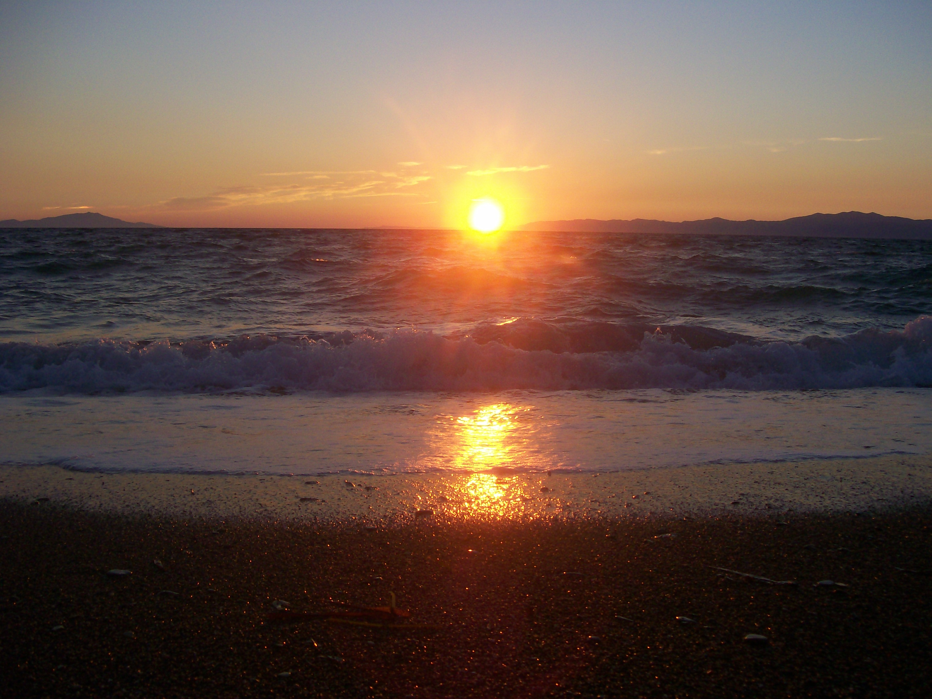 senset at bağlarburnu, pelitköy. Greek island Lesvos is left side and right side is ancient cape lekton